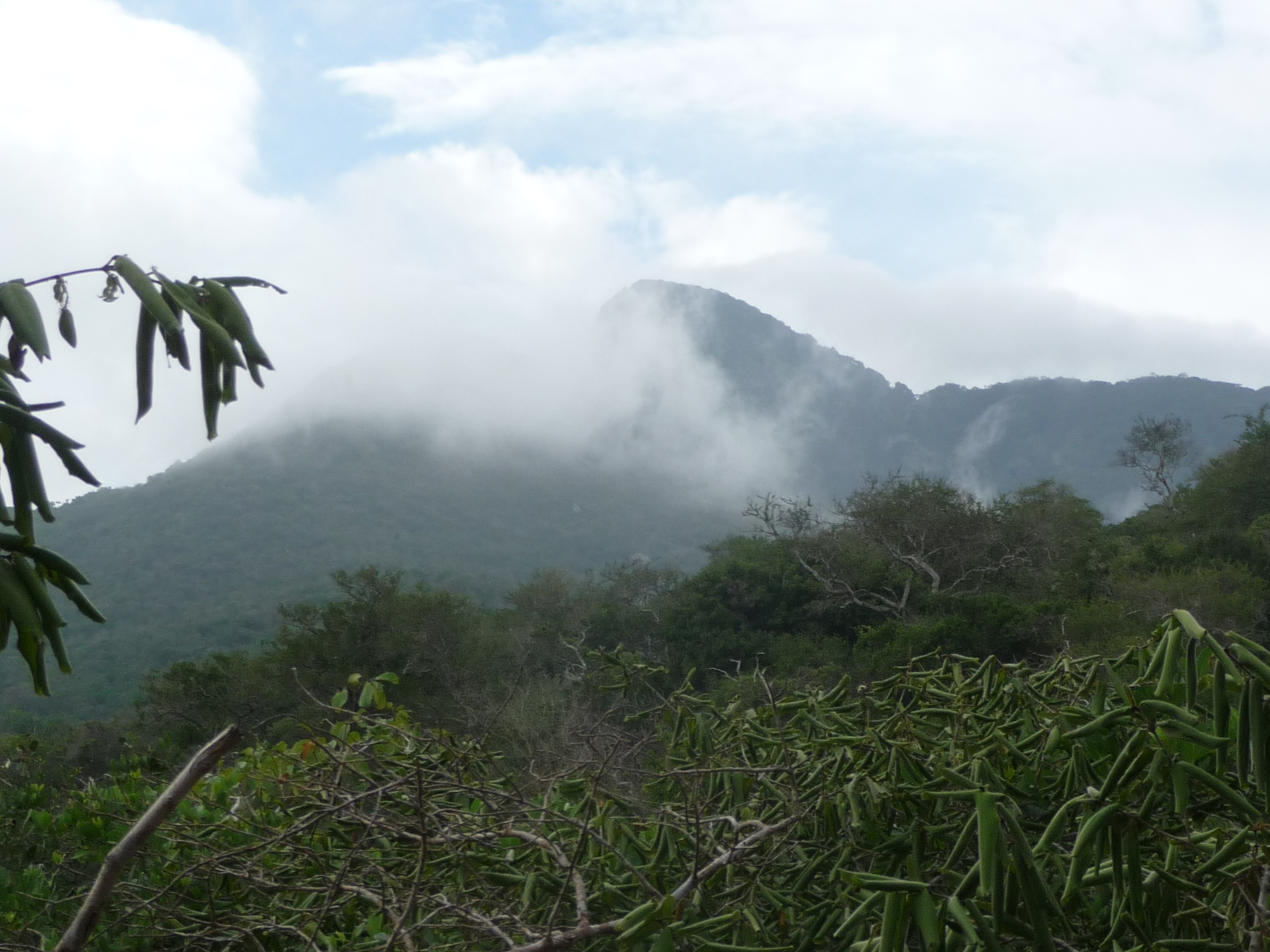 Mount Kasigau Kenya